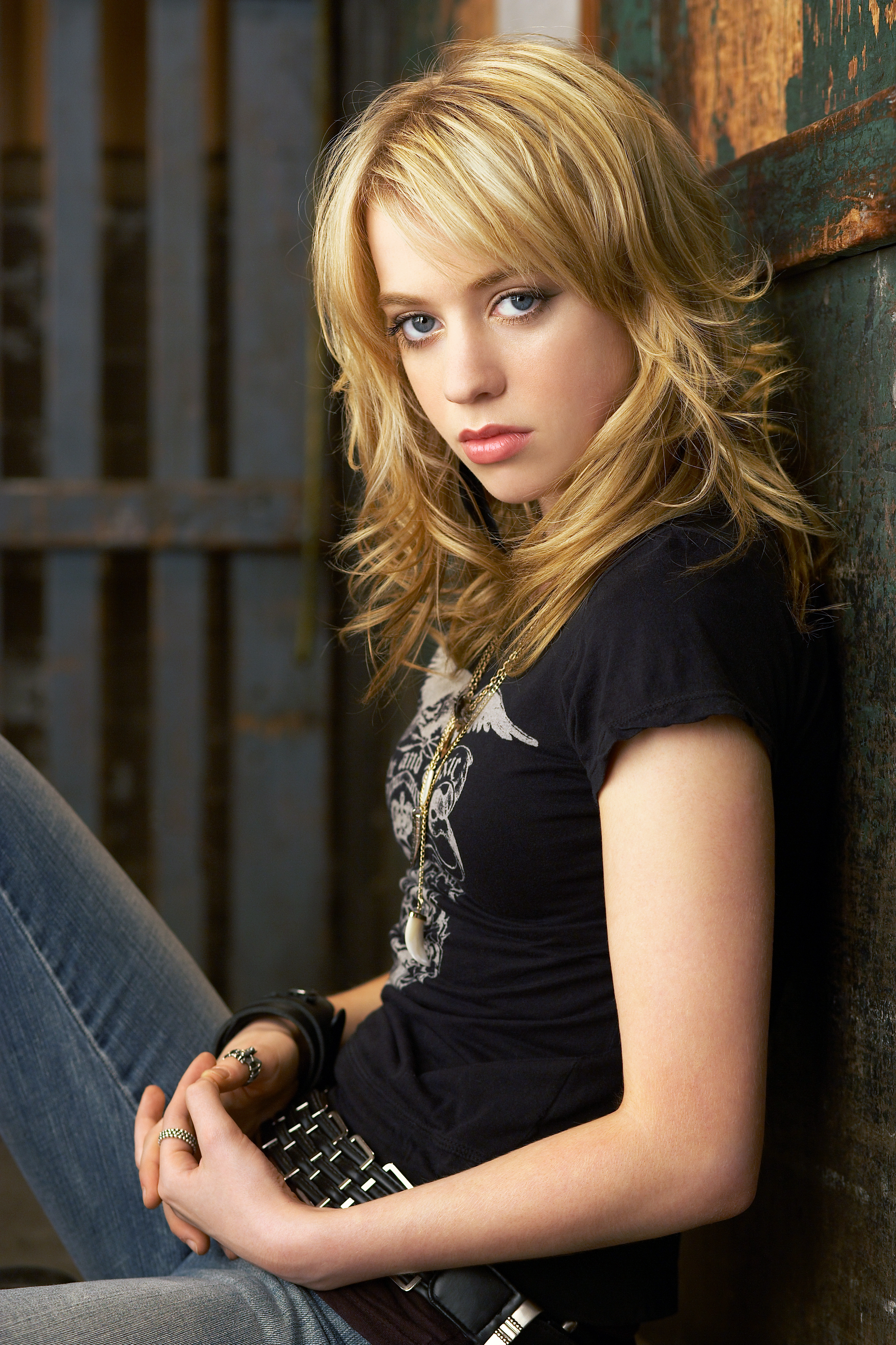 Alexz Johnson as Jude Harrison in Instant Star (seated, in freight elevator).